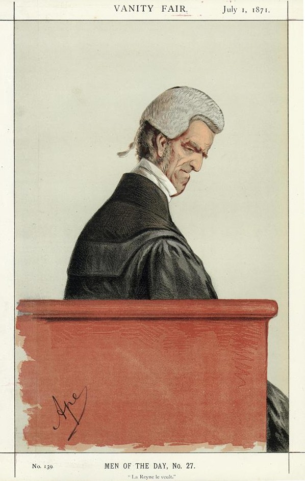 Caricature of Sir John George Shaw-Lefevre KCB (1797-1879). Caption read "La Reyne le veult".